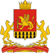 Chelyabinsk oblast, coat of arms (1999)